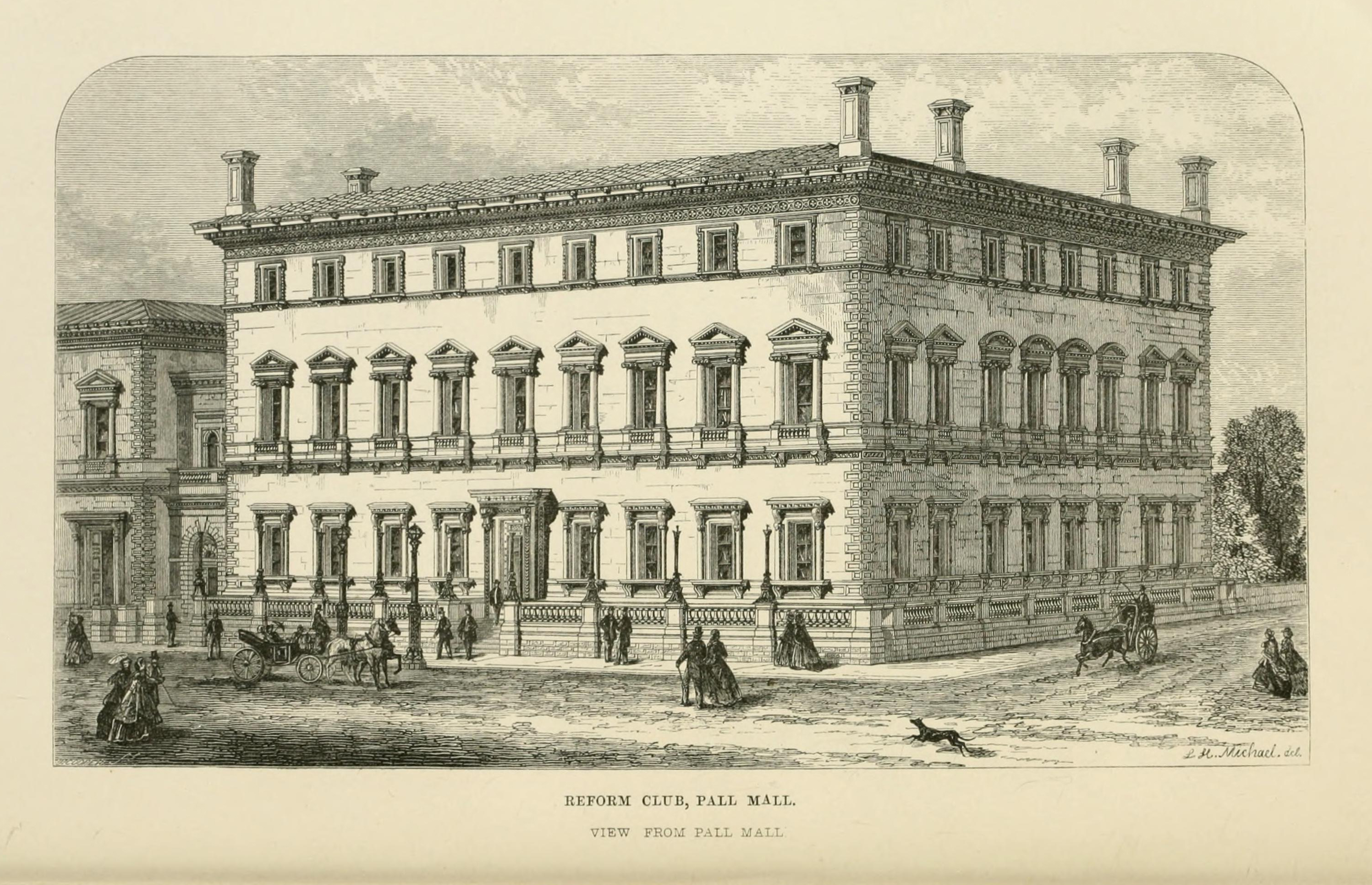 Reform club, Pall Mall